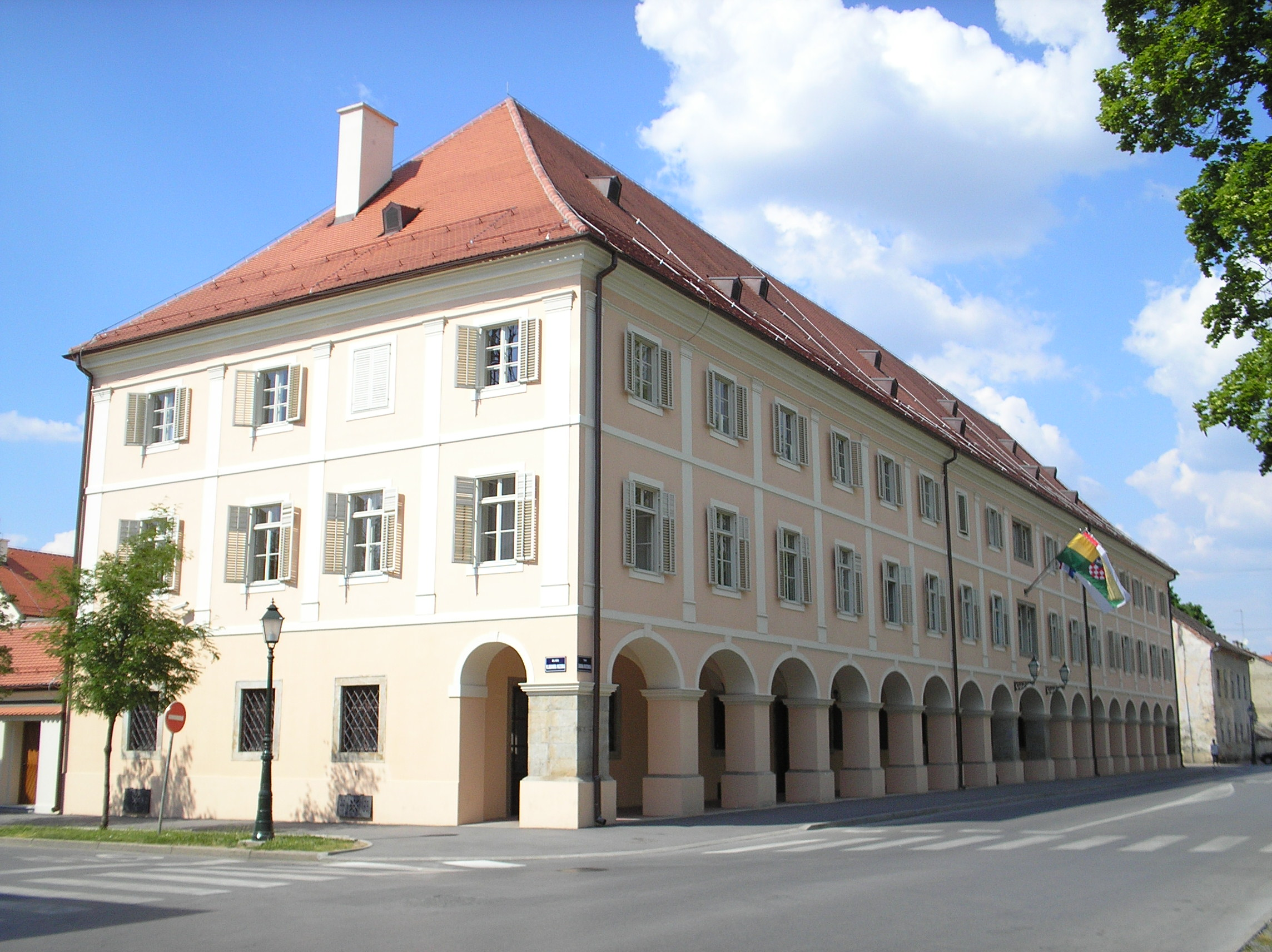 Town hall, Bjelovar, Croatia.